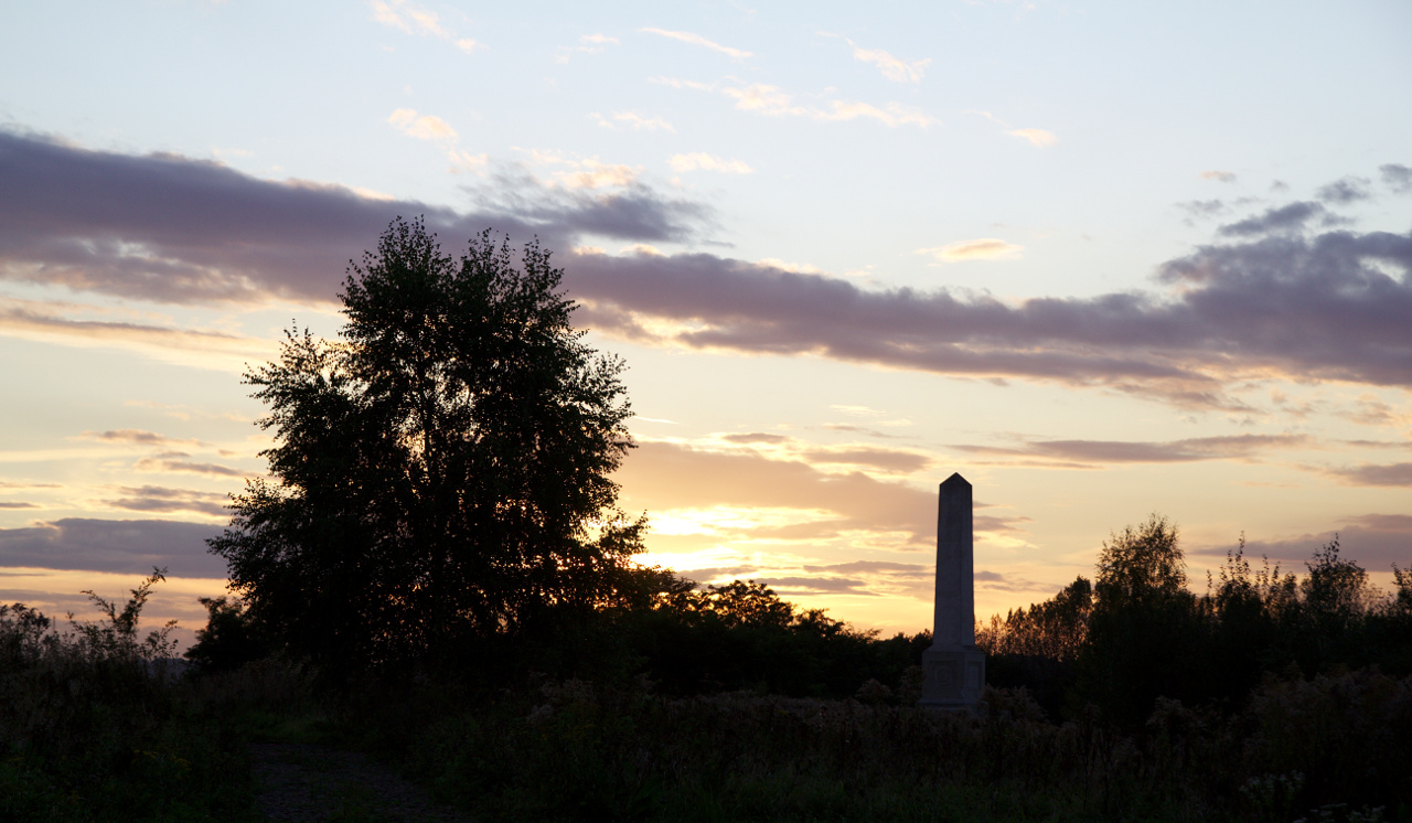 Kaim Hill Memorial